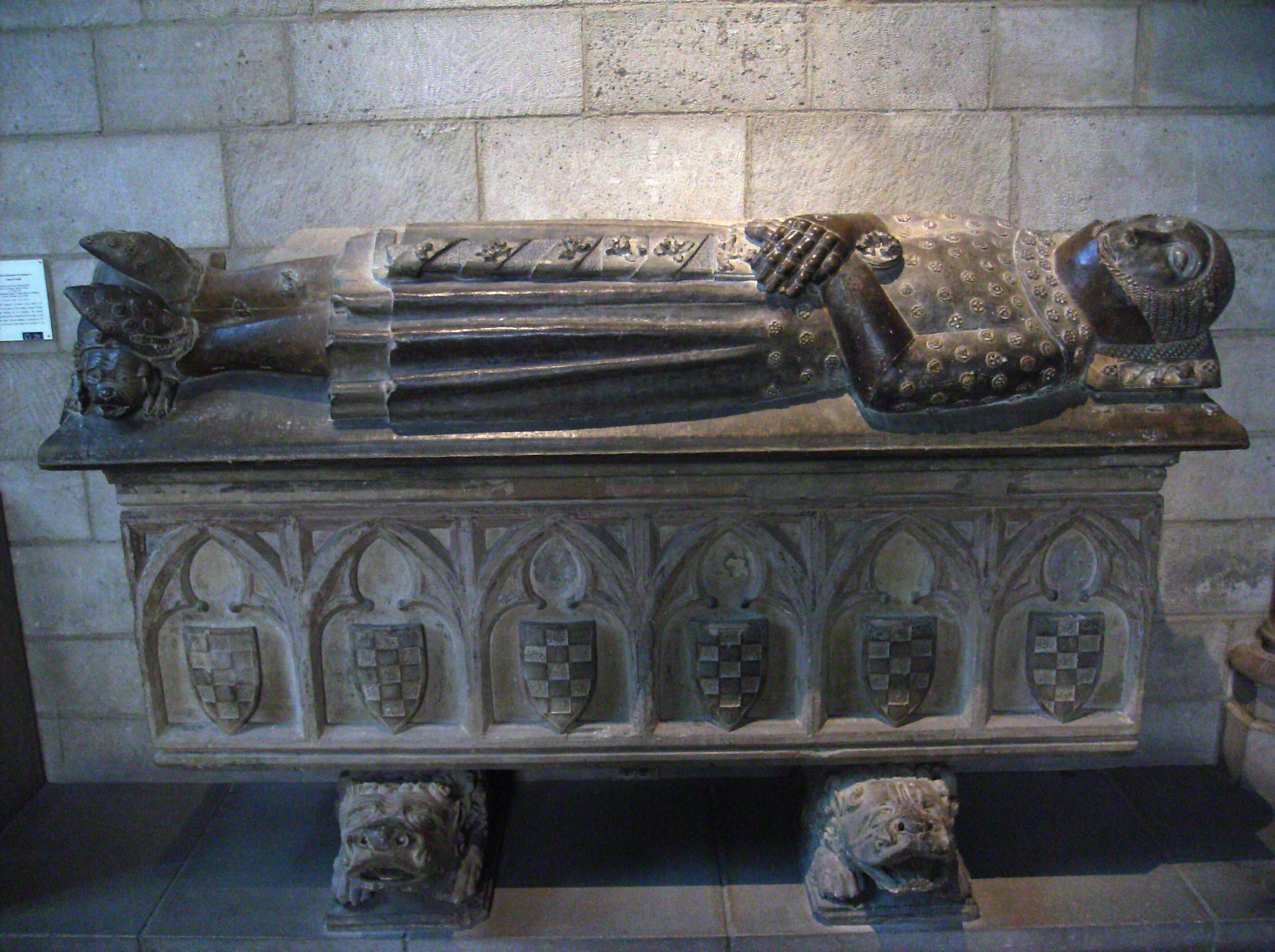 Sepulchral Monument of Ermengol X, Count of Urgell Spain Catalunya (Cataluna), Lleida), 1300-1350 From the monastery chapel at Santa Maria de Bellpuig de les Avellanes In his will Ermengol X ordered a fine tomb to be installed in the chapel of the monastery church of Santa Maria de Bellpuig de les Avellanes. The earliest surviving description correspond with this effigy in mail and plate armor. The sarcophagus is probably an 18th century replacement made during the restoration of the church.